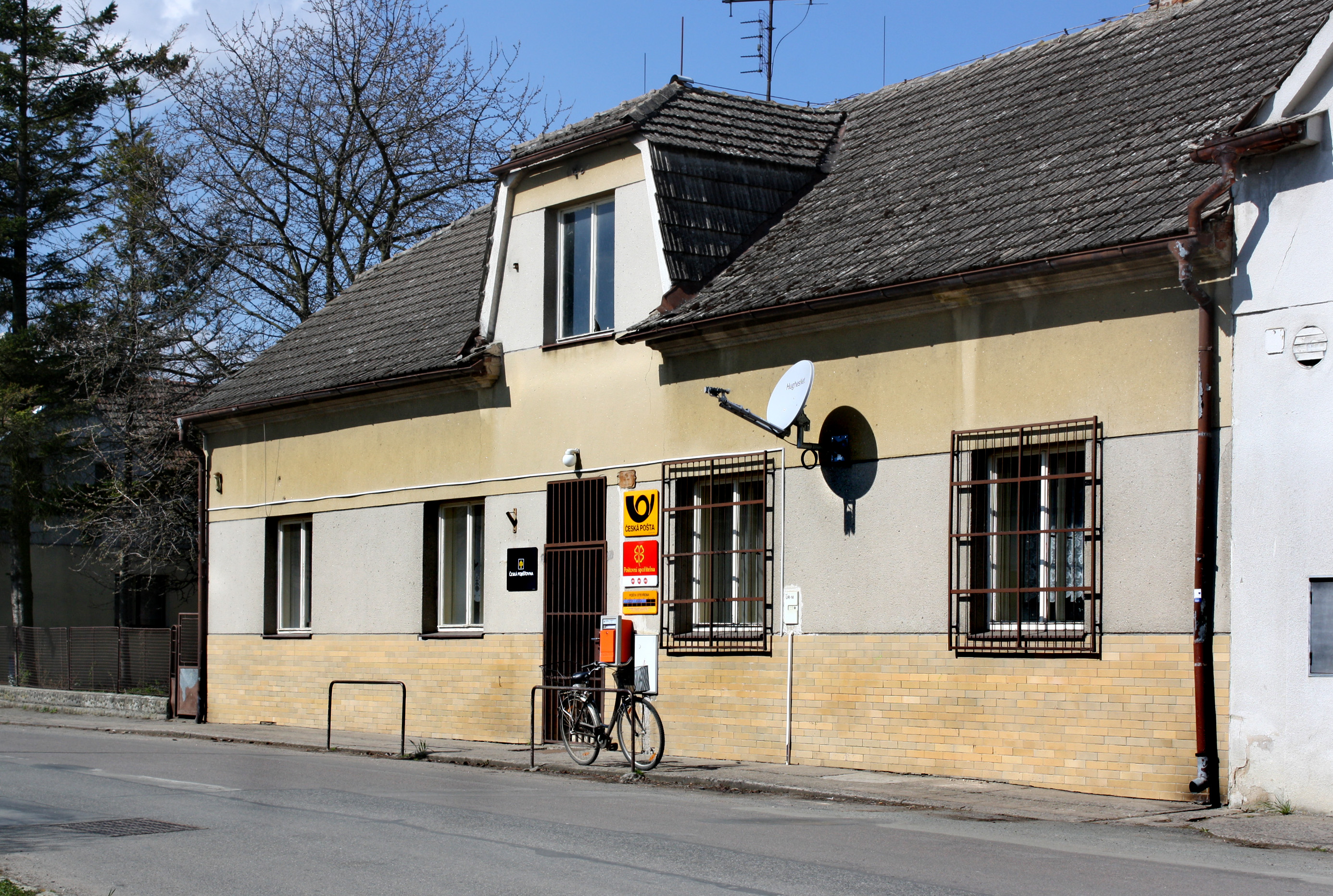 Post office in Kněžice, Czech Republic